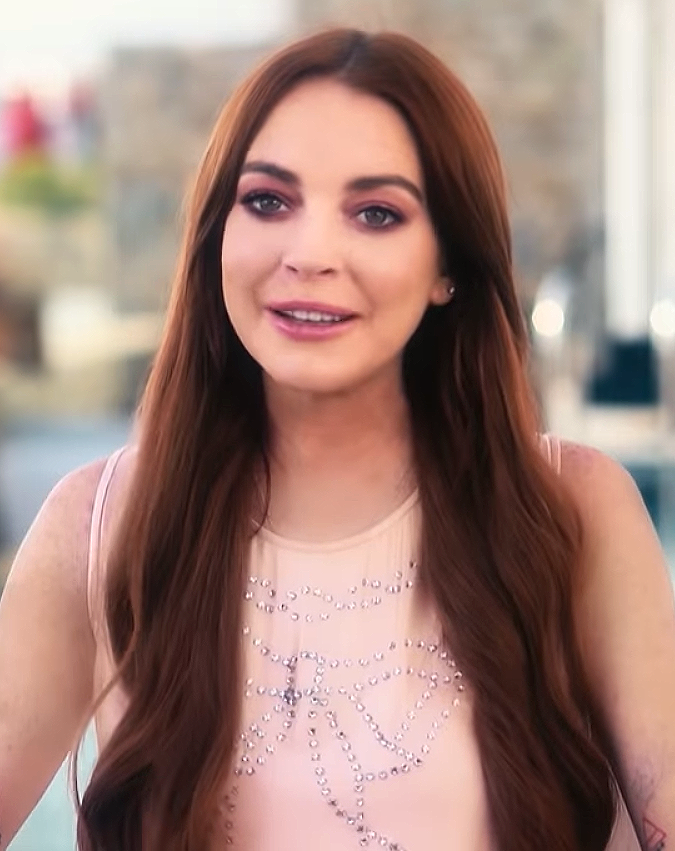 LiLo has swapped Hollywood for Greek party island Mykonos as she opens up her very own super club!